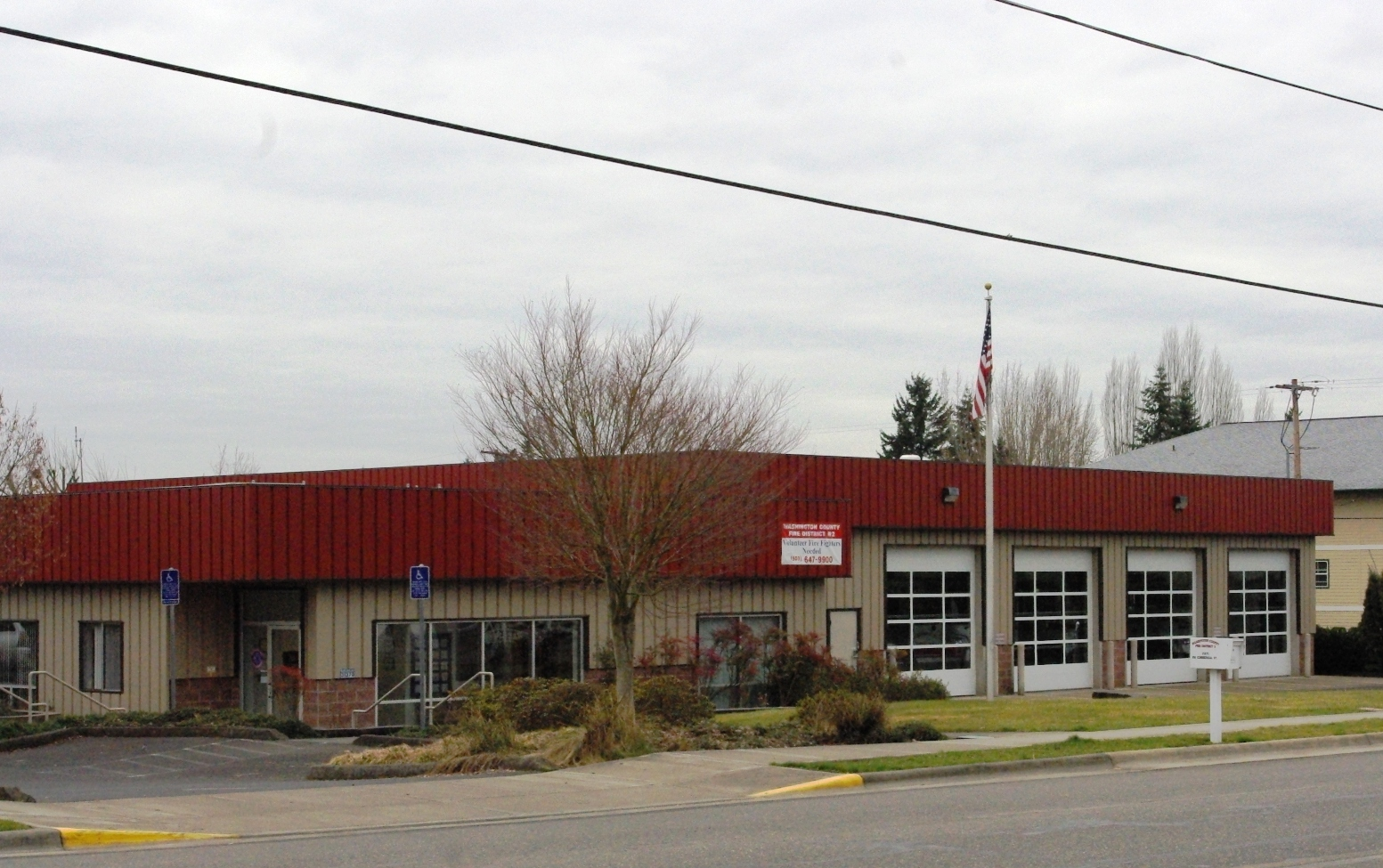 Library in North Plains, Oregon, USA